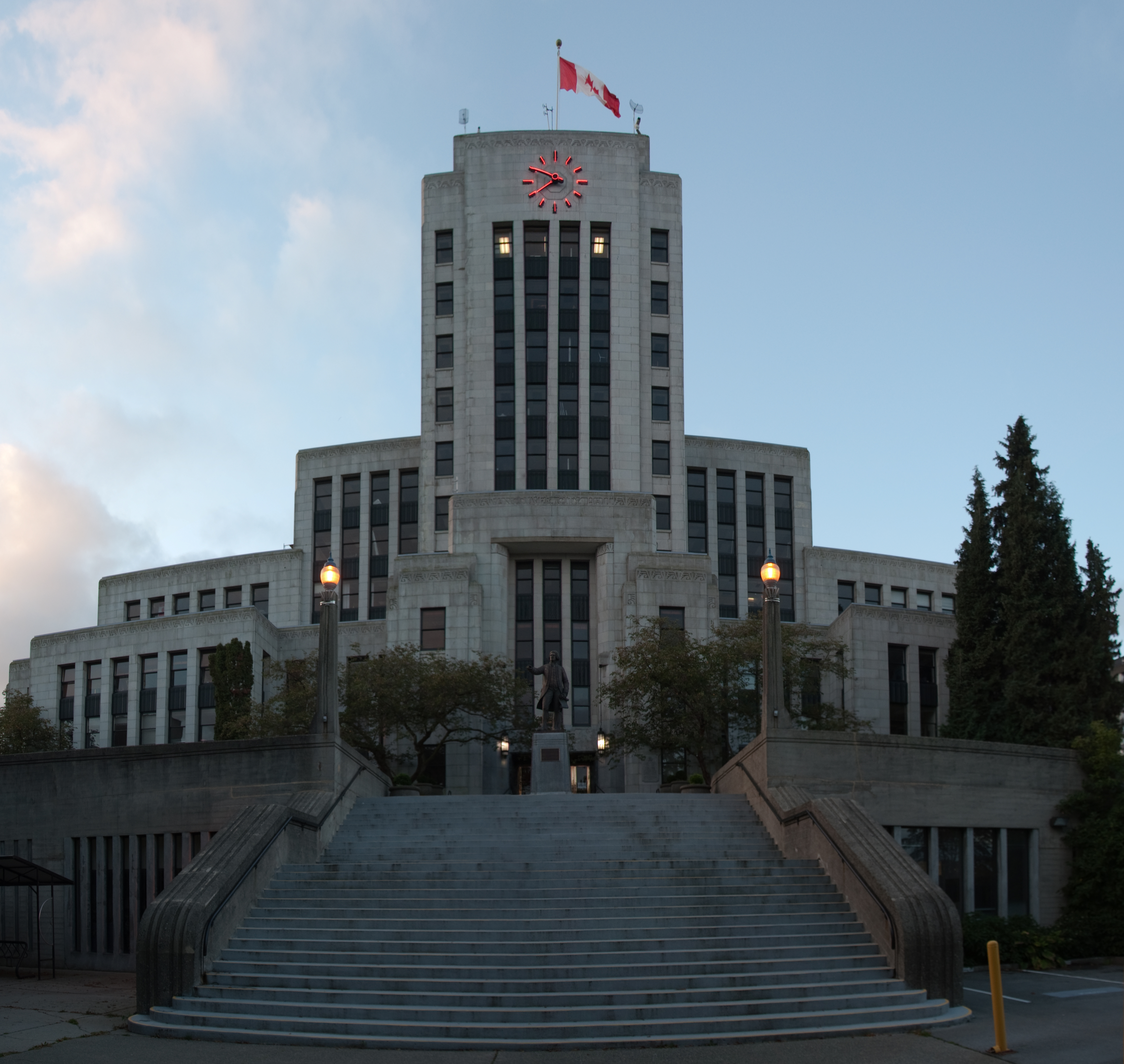 Vancouver City Hall